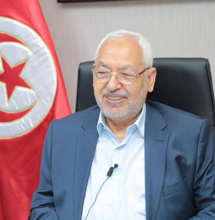 Photo of Rached Ghannouchi